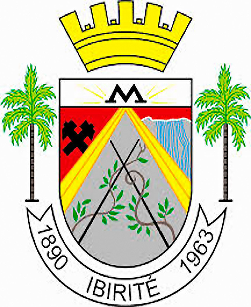 Brasão de Ibirité-MG